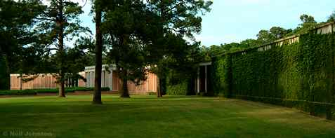 RW Norton Art Gallery, Shreveport, Louisiana, United States.